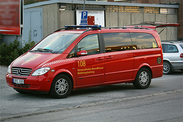 Fire engine, Mercedes 639, emergency management, in Stockholm Sweden